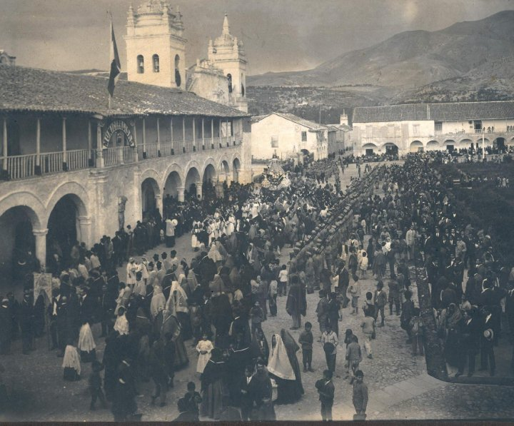 Procesion ayacucho